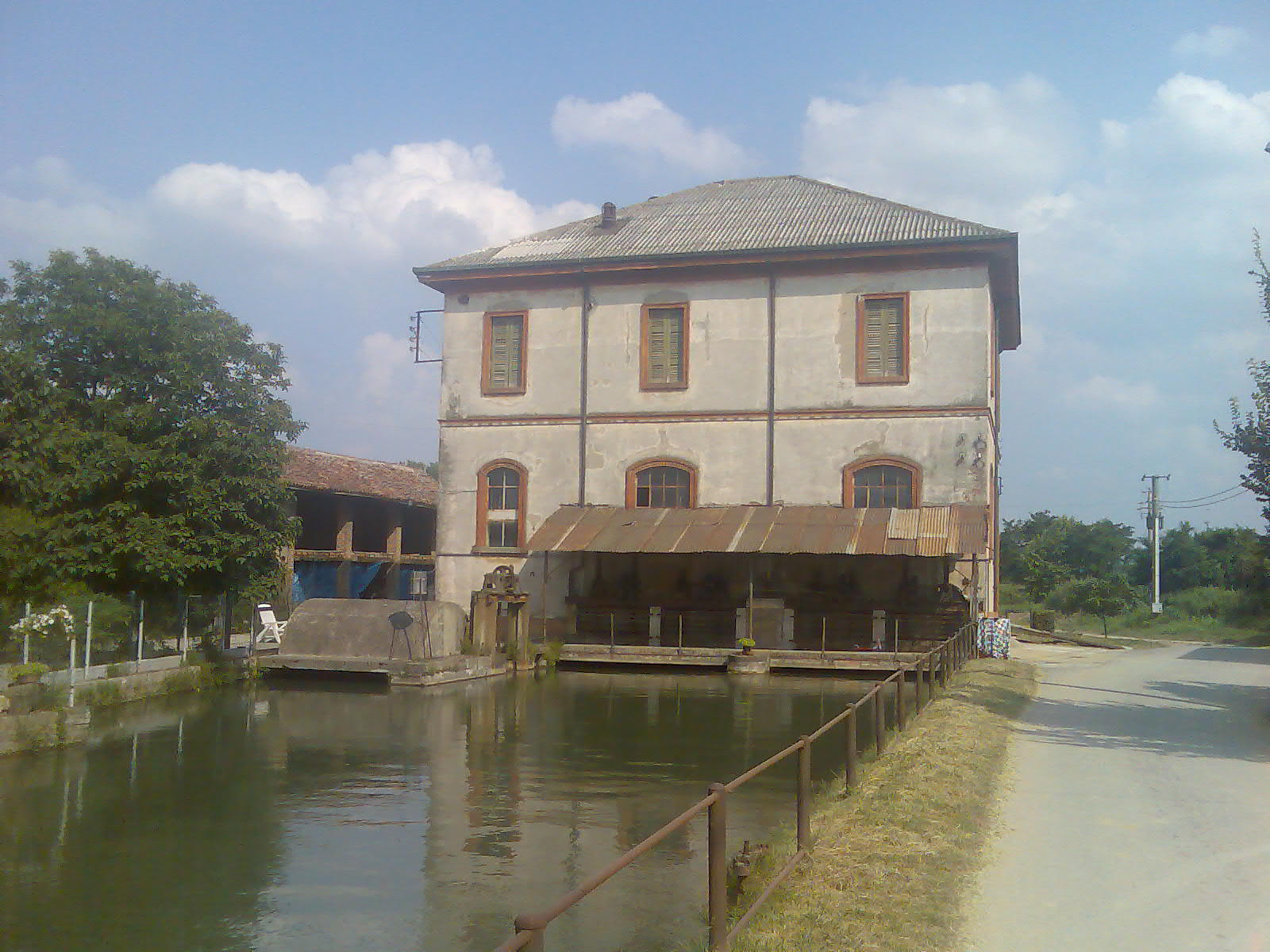 The old, dismissed hydroelectric powerplant built just over the Naviglio Pallavicino (a canal in central Lombardy) at Mirabello Ciria (province of Cremona).